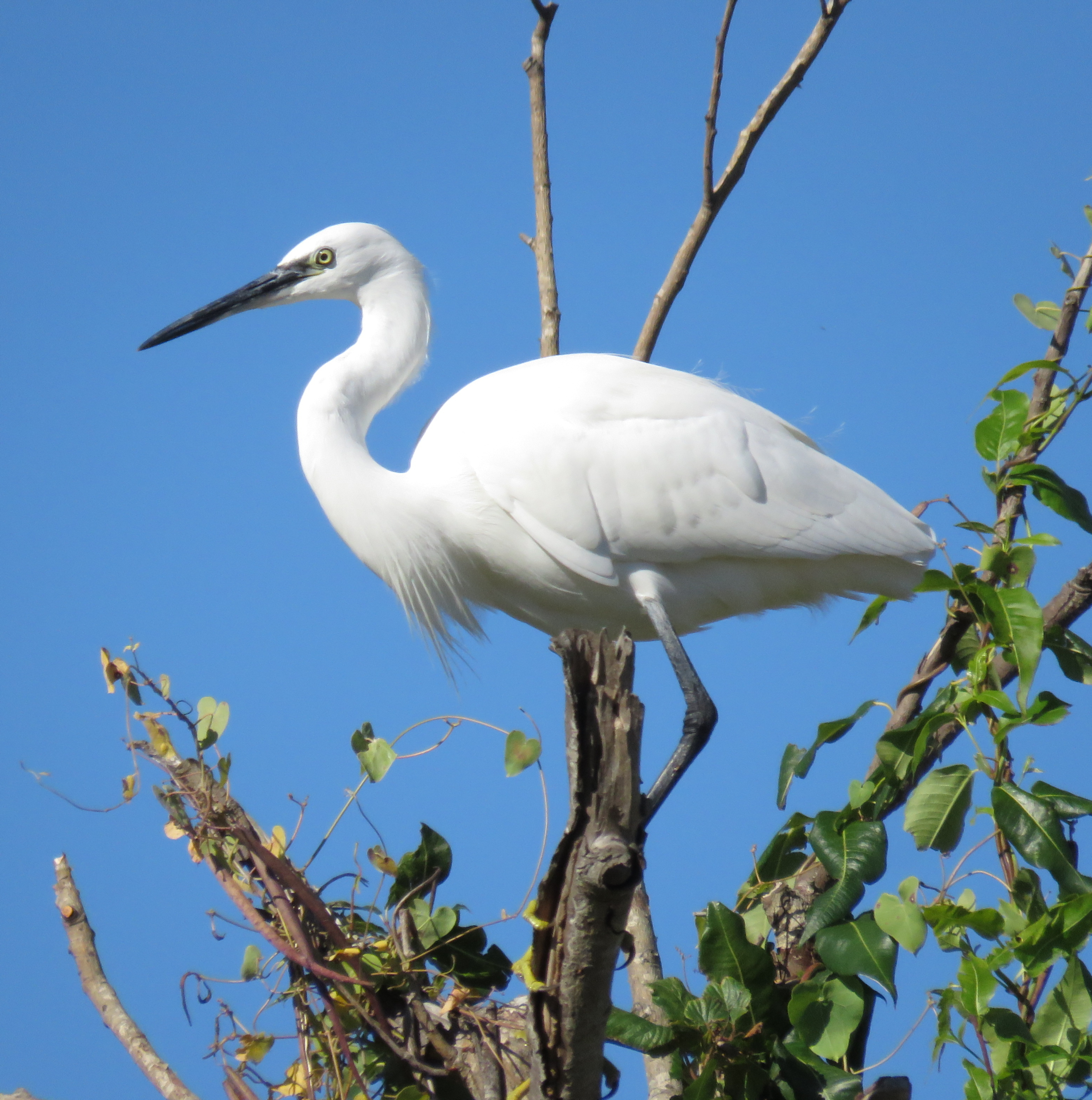 Little Egret standing in a tree. In Epirus, Greece.